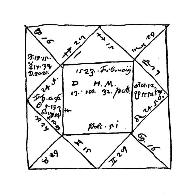 Hac est genesis Valentini Naibodae